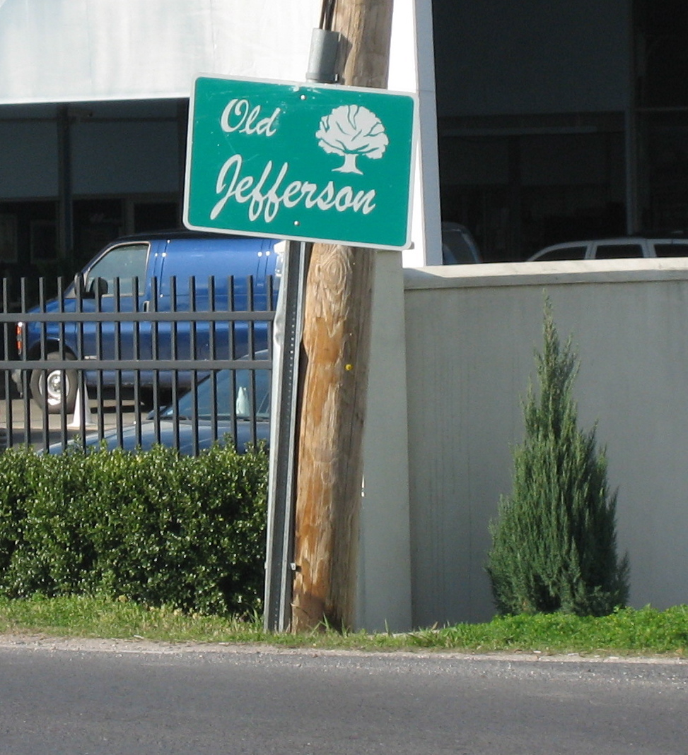 Jefferson Parish Louisiana. Sign on old River Road marking Old Jefferson.